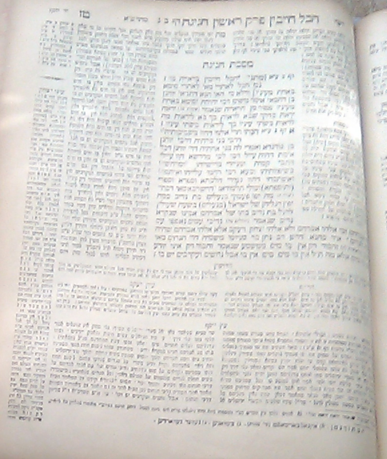 Tractate Hagigah in En Jacob, printed in Vilnius before World War 2